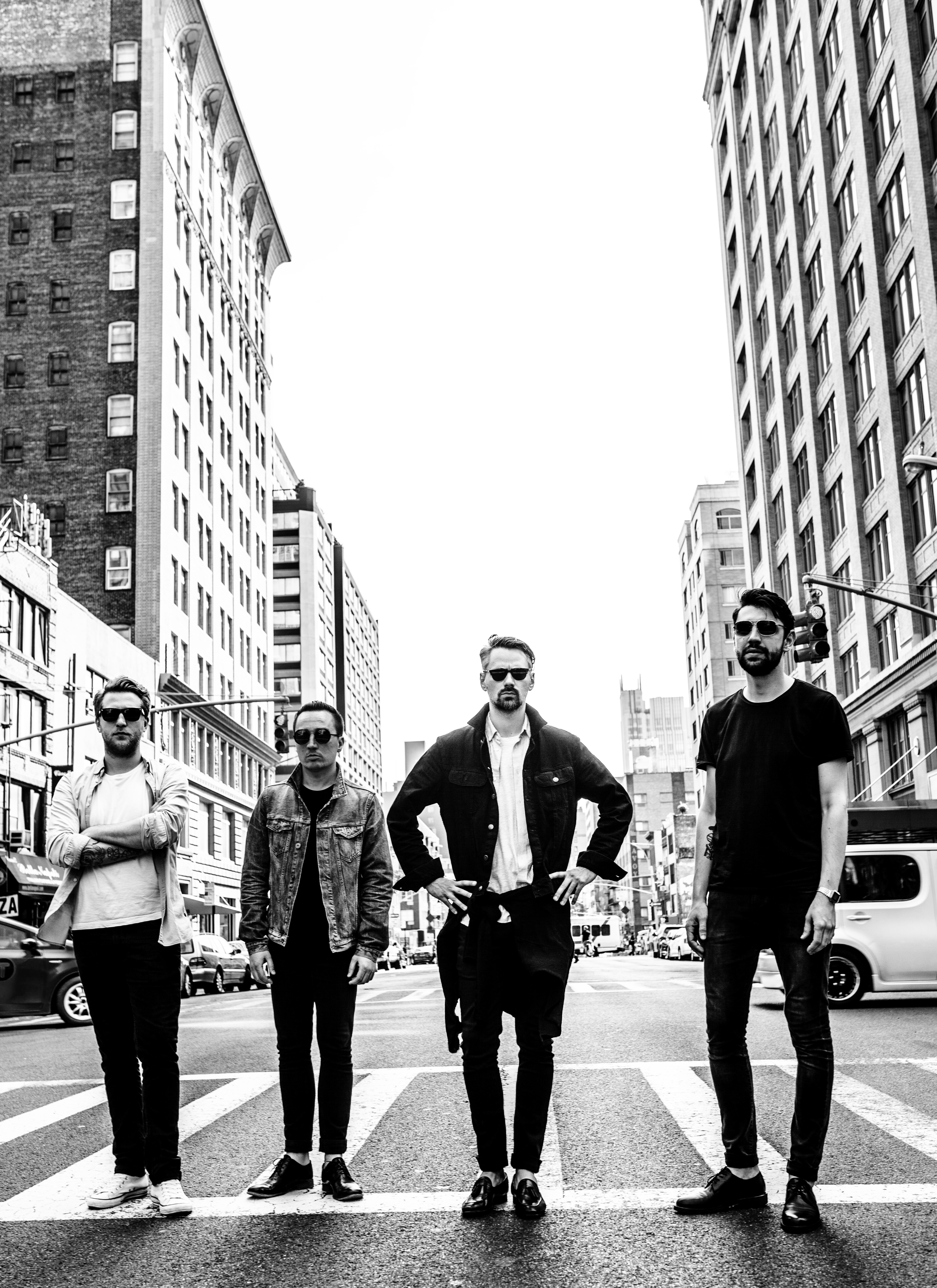 Tesla Boy